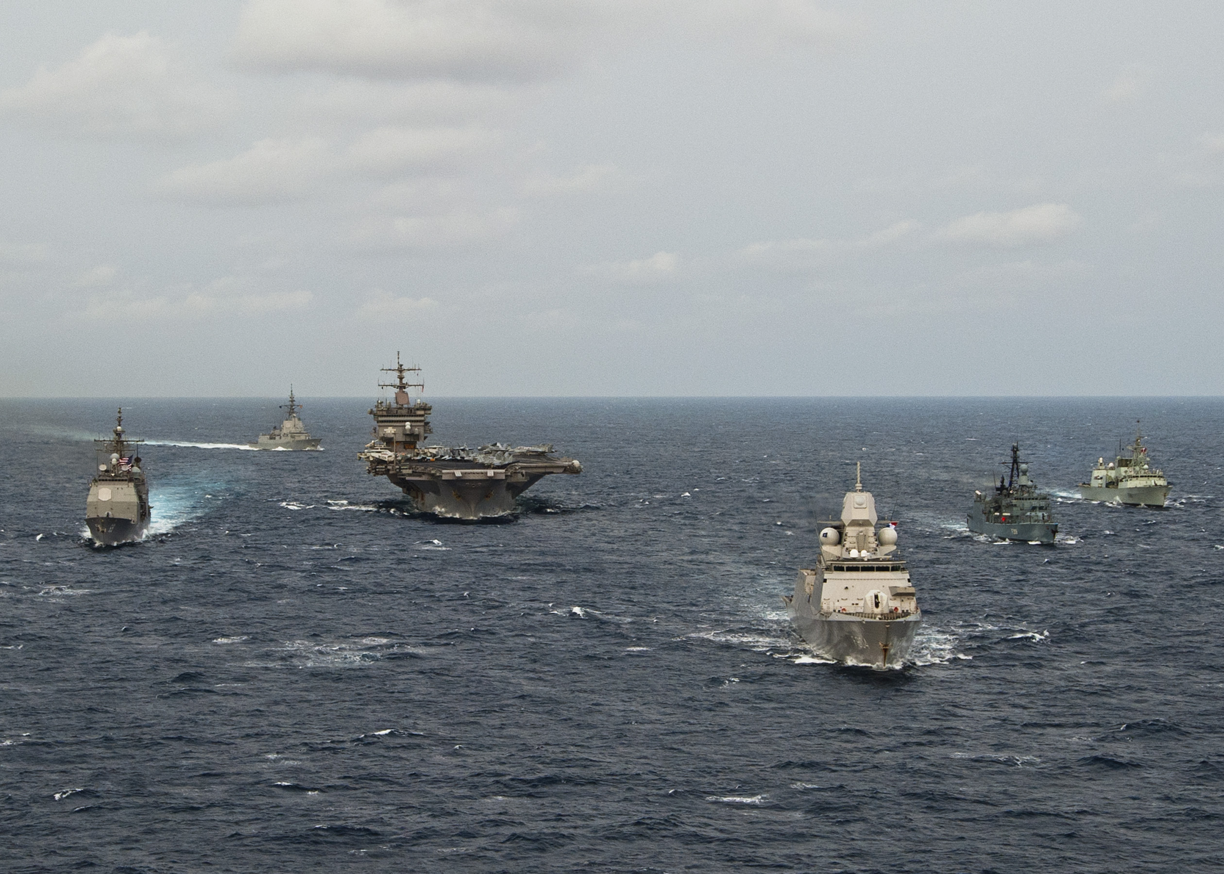 Mediterranean Sea (March 24, 2012) (Left to right) Guided-missile cruiser USS Vicksburg (CG 69), aircraft carrier USS Enterprise (CVN 65), Royal Netherlands Navy frigate HNLMS De Ruyter (F 804), German Navy frigate FGS Rheinland-Pfalz (F 209) and Royal Canadian Navy frigate HMCS Charlottetown (FFH 339) transit in formation during a passing exercise. (U.S. Navy photo by Mass Communication Specialist Seaman Randy J. Savarese)